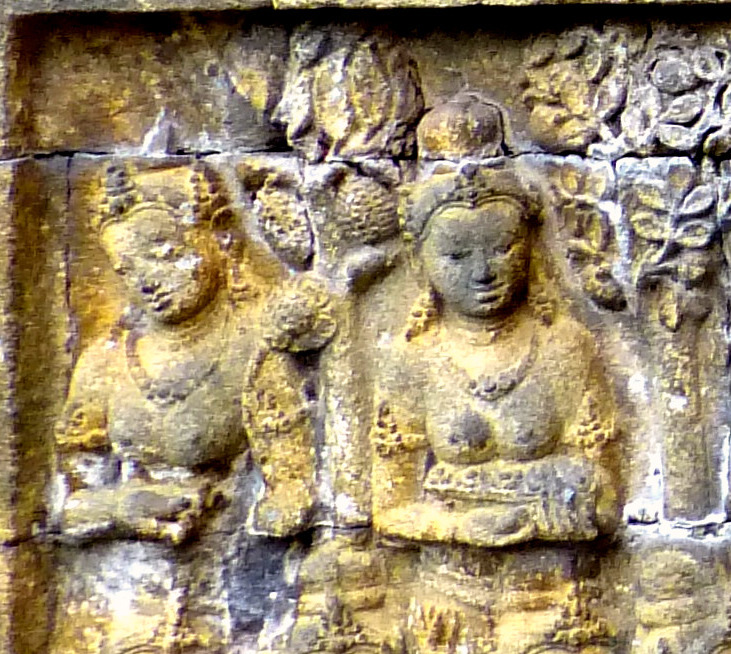 110 E, Maitrakanyaka meets with sixteen Nymphs at Borobudur Photograph of a Divyavadana relief at Borobudur in Java, Indonesia taken by Anandajoti.